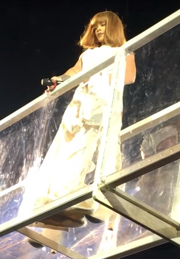 Rihanna Anti World Tour